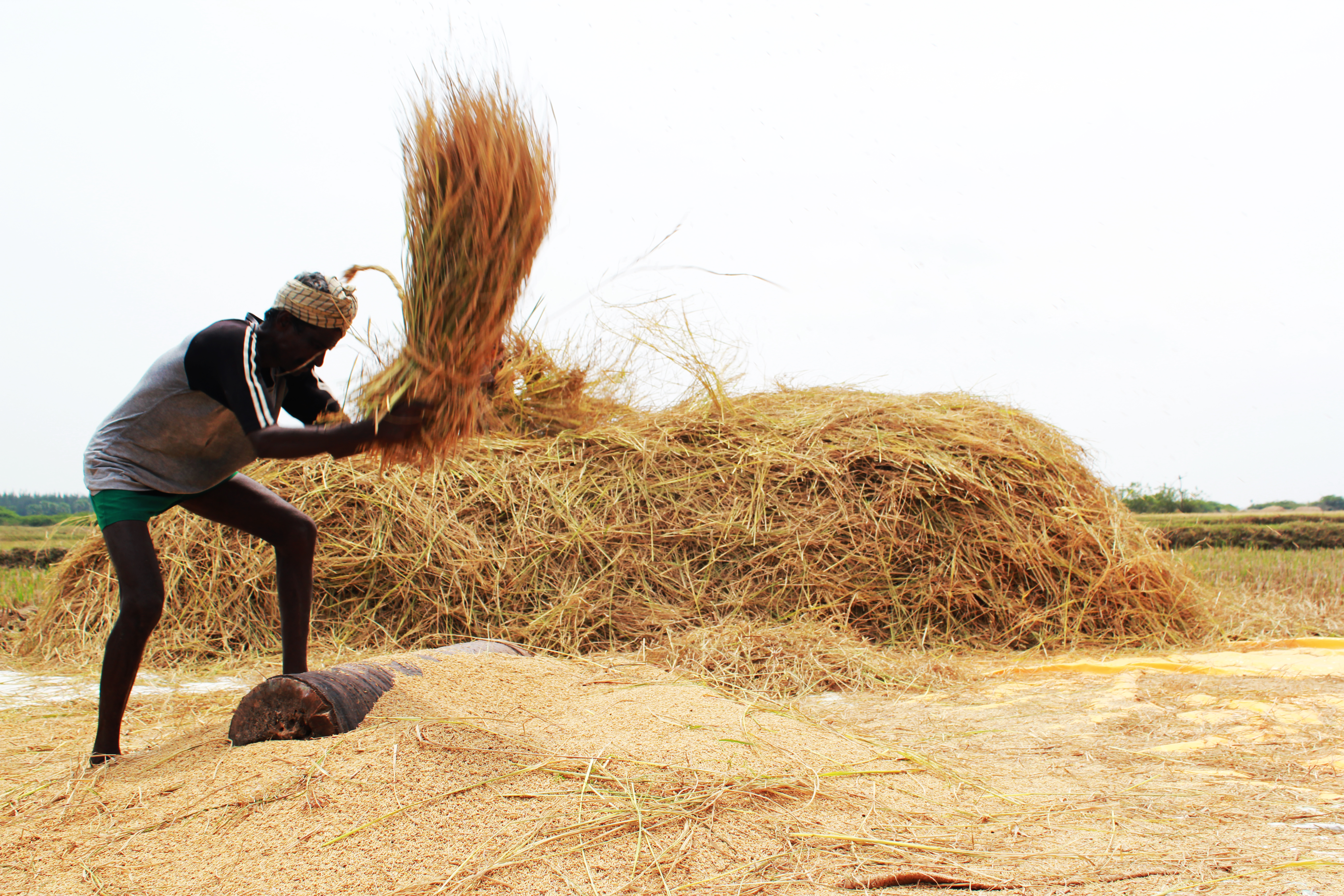 A farmer works on his field